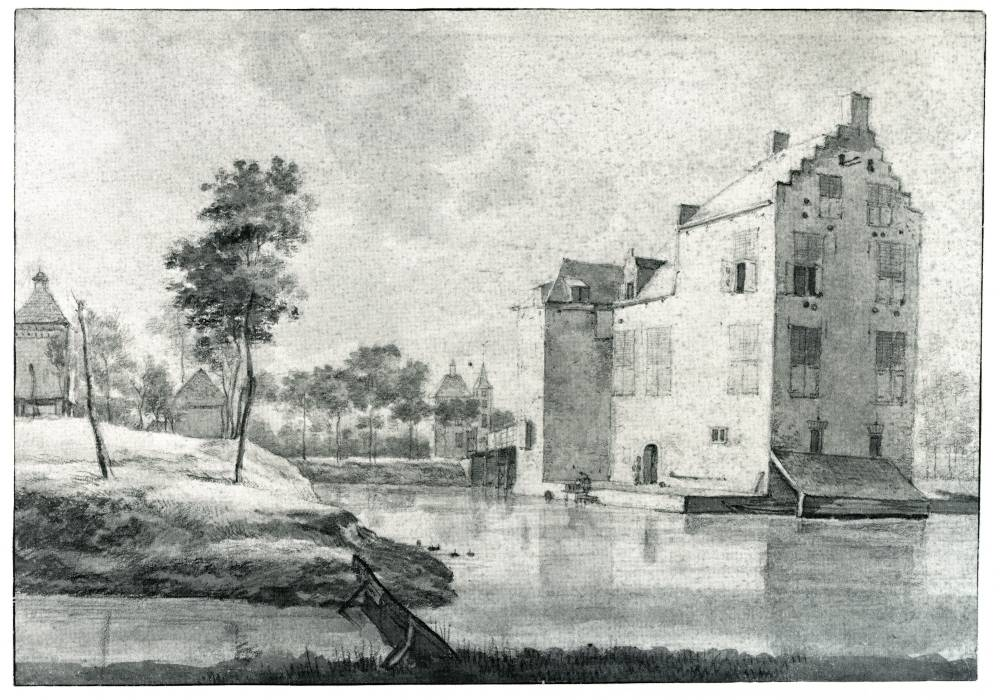 Castle Rijnestein